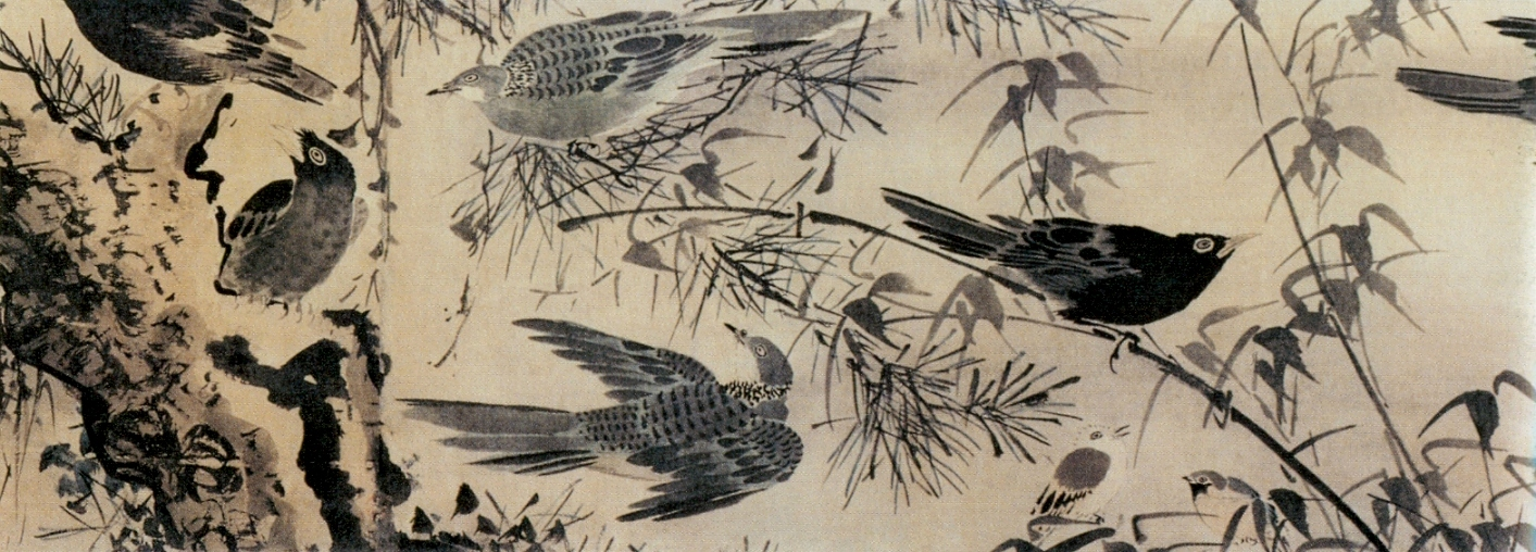 Lin Liang. "Birds in Bushes," 34x1211,2cm, section of a handscroll, Palace Museum, Beijing (part 1).